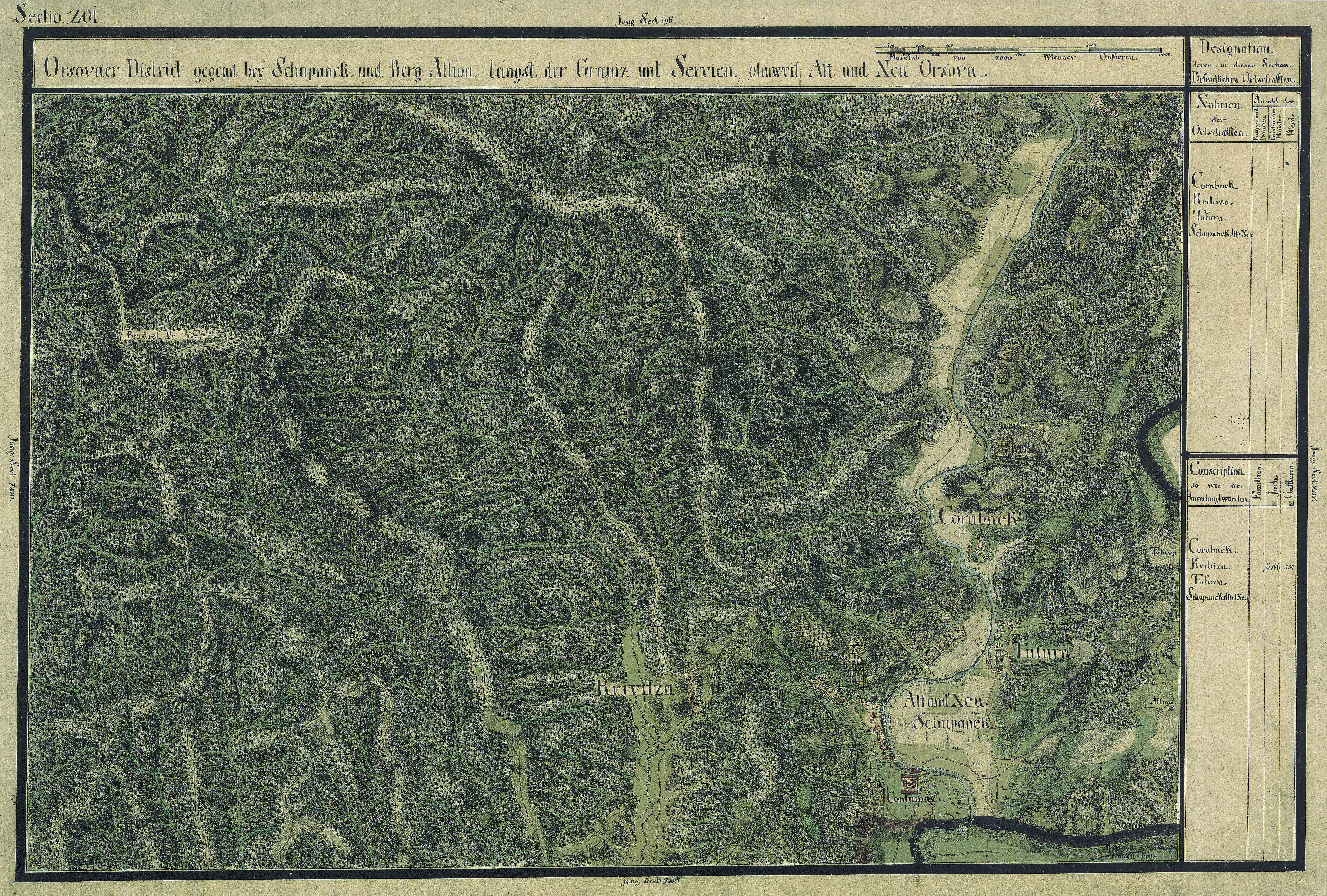 The Banat region in the cadastral maps: Josephinische Landesaufnahme, 1769-72. Josephinische Landaufnahme pg201